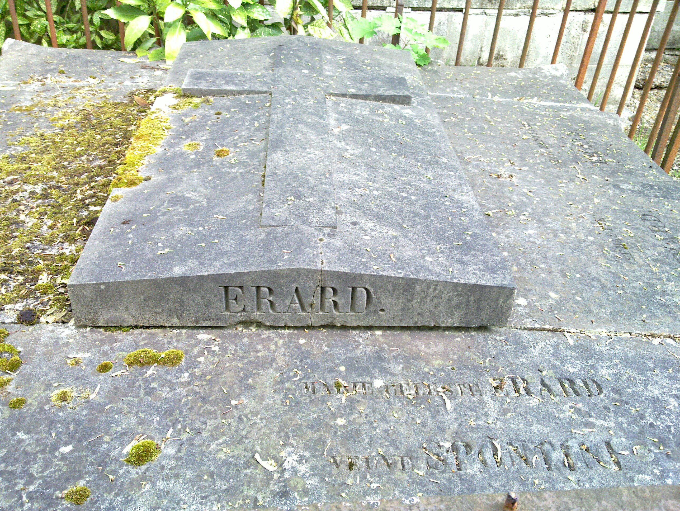 Erard family's grave, cimetière du Père-Lachaise, Paris